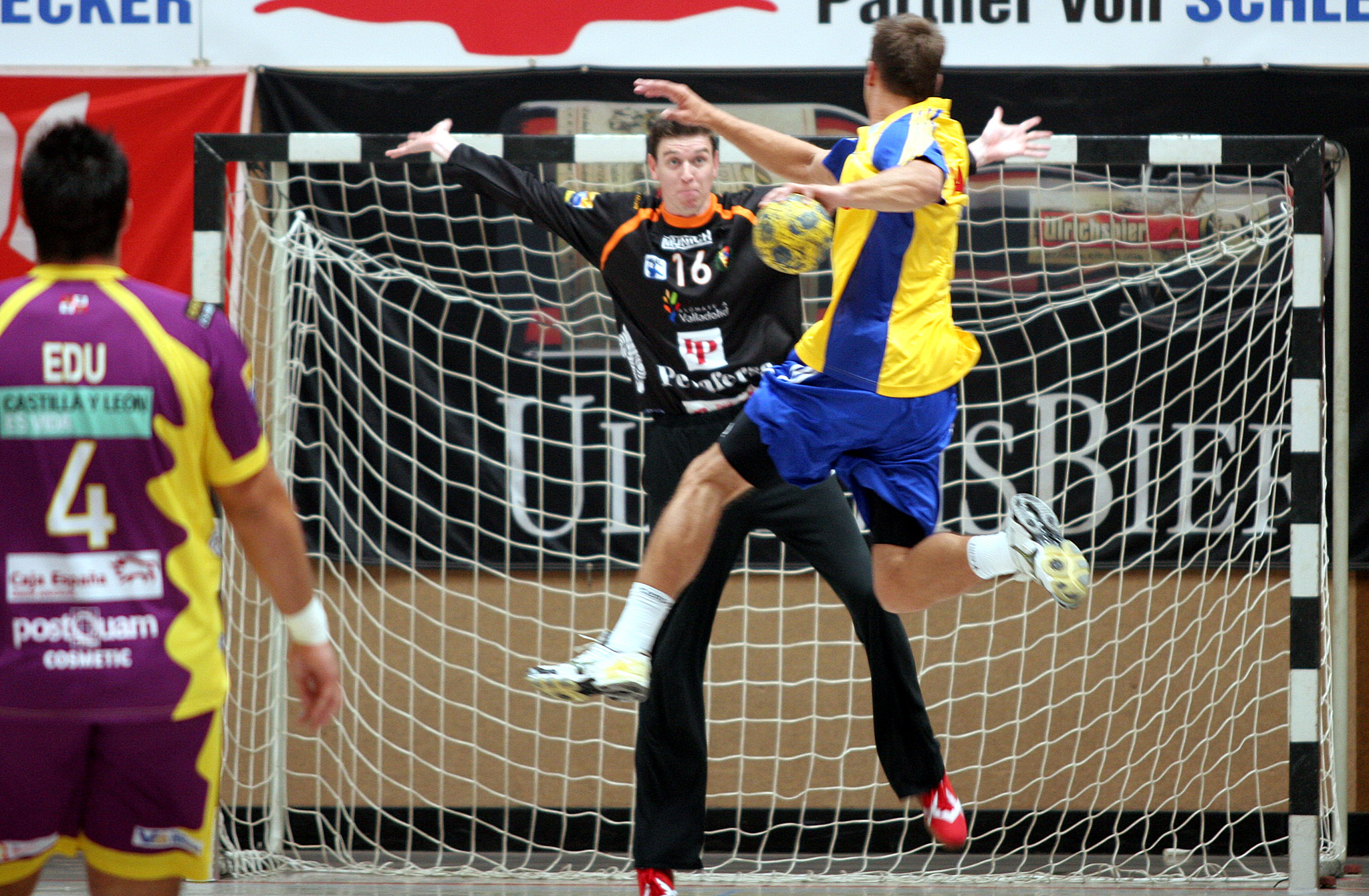 Gregor Lorger, Slowenian handball player from BM Valladolid, on August 30th, 2008 in Ehingen prior a game for the Schlecker Cup 2008